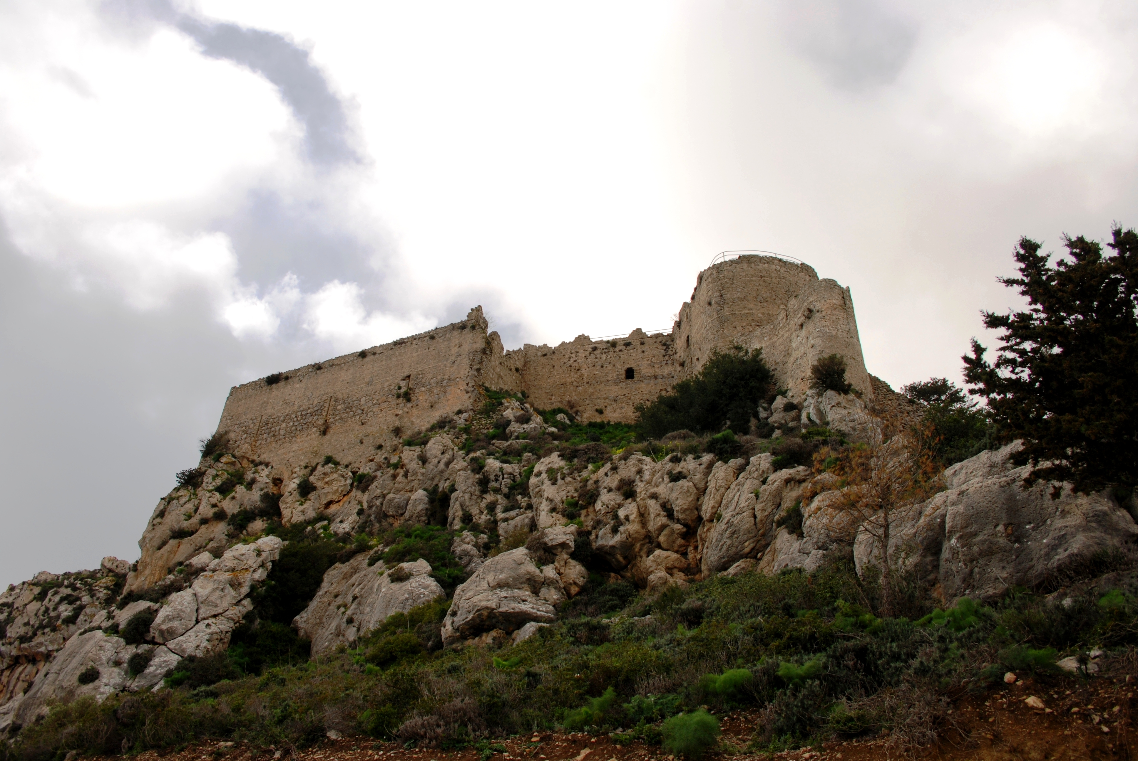 The castle of Kantara is the easternmost castle of the three Pentadaktylos mountain range castles in the Ammochostos district in occupied Cyprus.